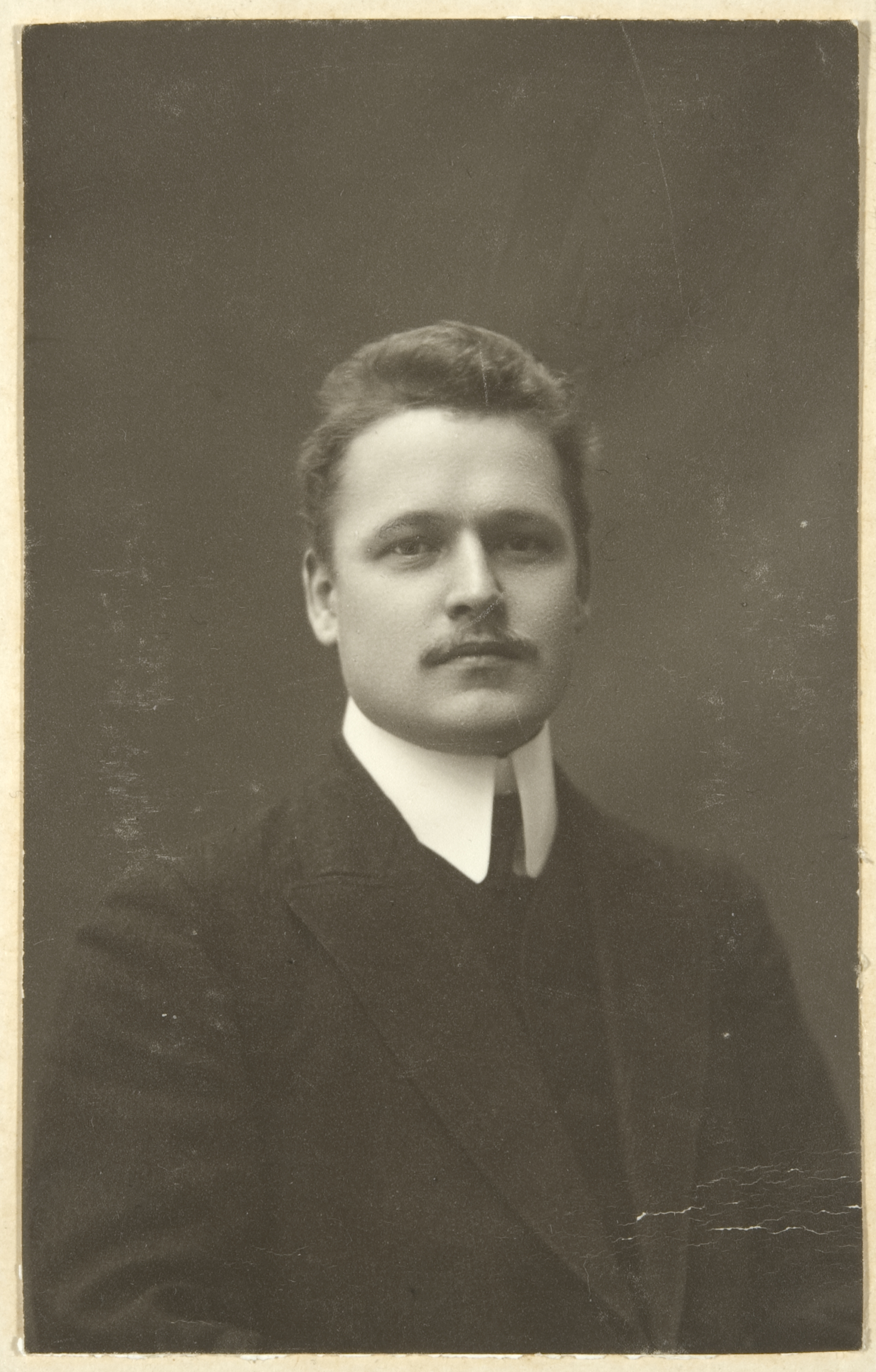 Photograph of the Finnish physician, professor Tauno Kalima (1881–1951).